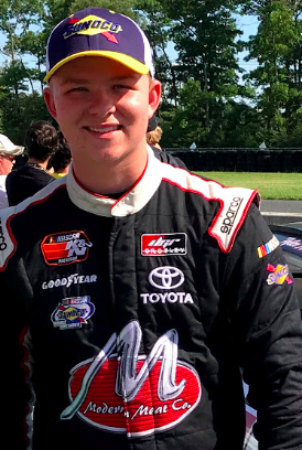 Tyler Ankrum at New Jersey Motorsports Park in 2018.